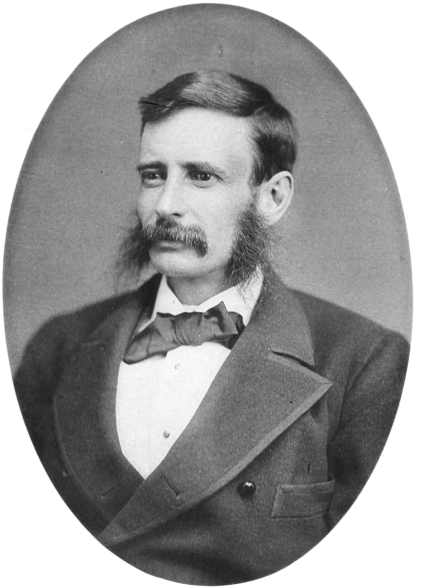 Portrait of Franklin Carter, a professor at Yale College